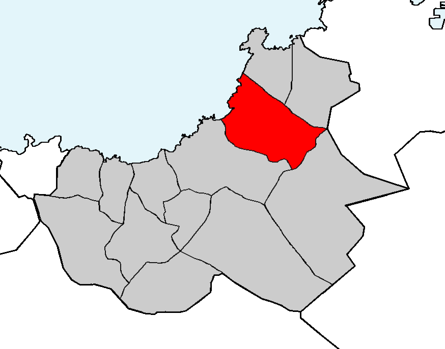 Location of the parish of Oseiro in the municipality of Arteixo (Galicia, Spain)